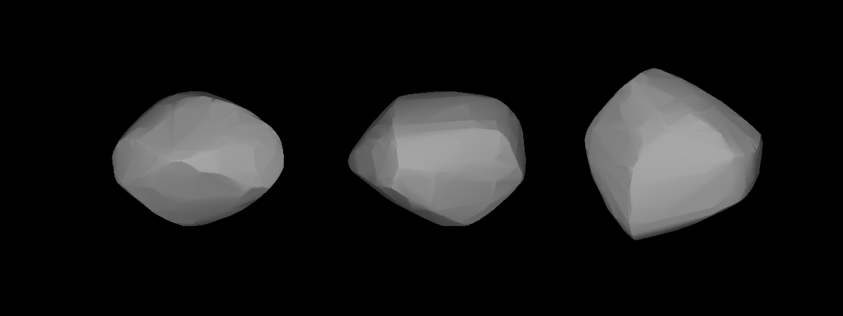 Three-dimensional model of 51 Nemausa created based on light-curve.